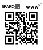 SPARQCode Sample.